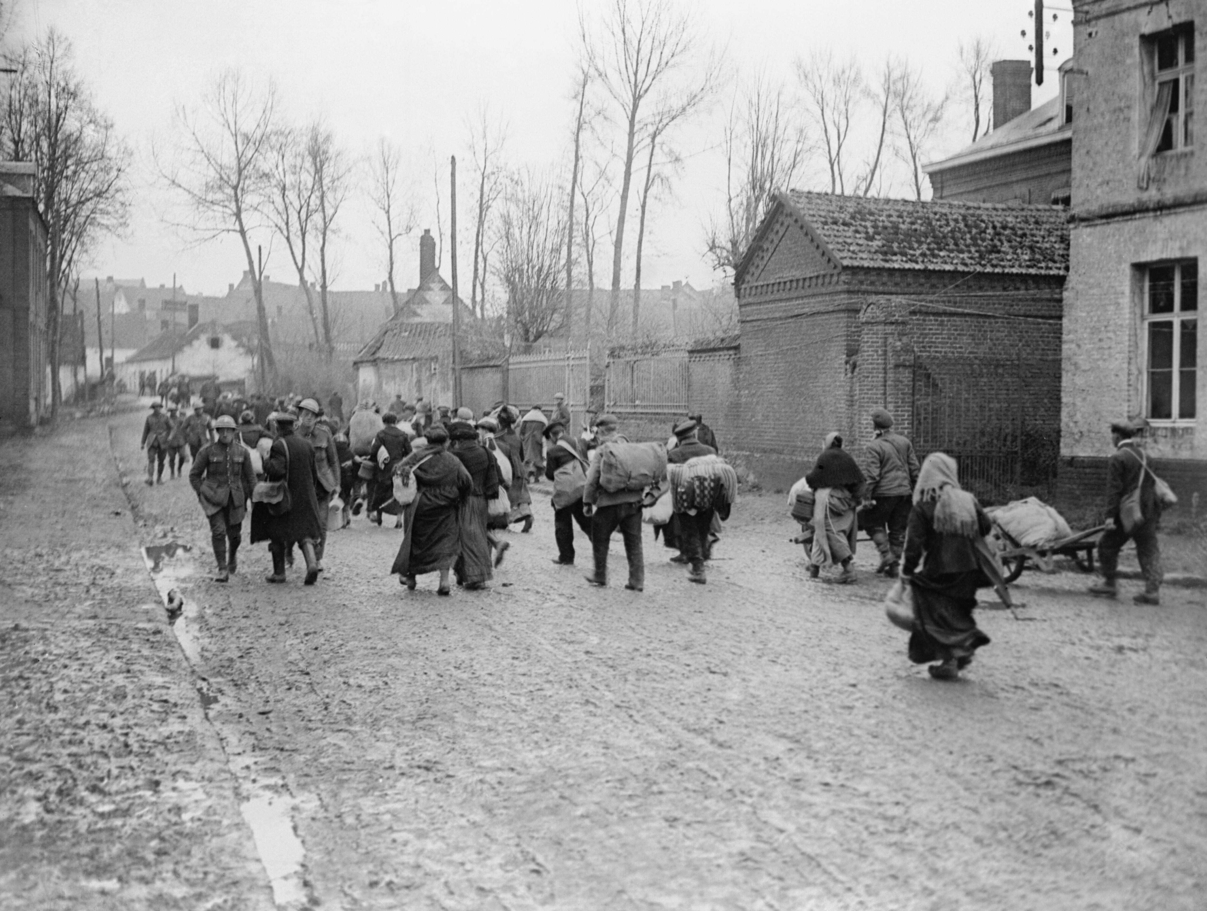 The Battle of Cambrai, November-december 1917 The inhabitants of the captured village of Noyelles taking refuge in Marcoing, 22 November 1917.